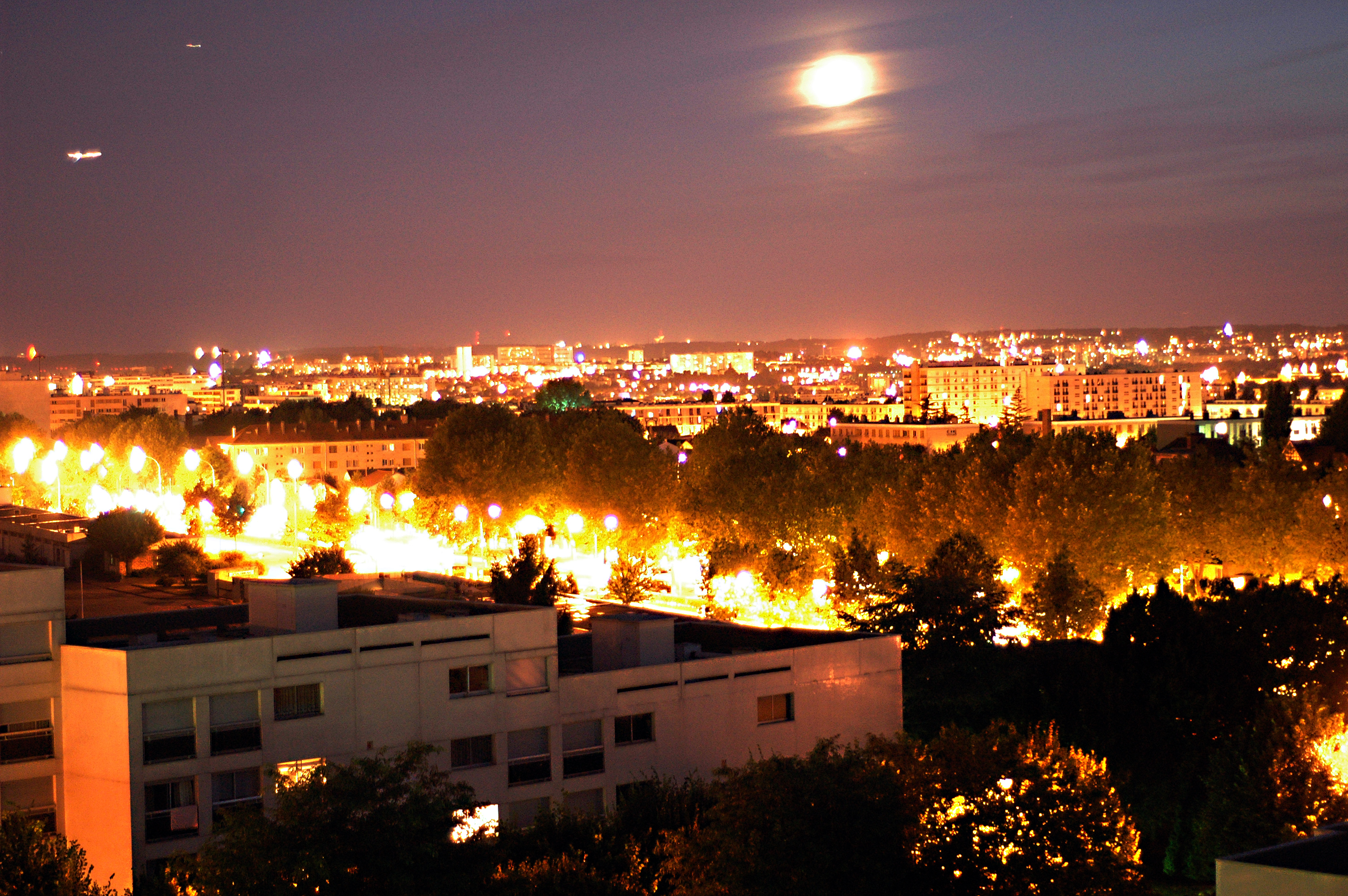 Night view over Chevilly-Larue (Val-de-Marne)